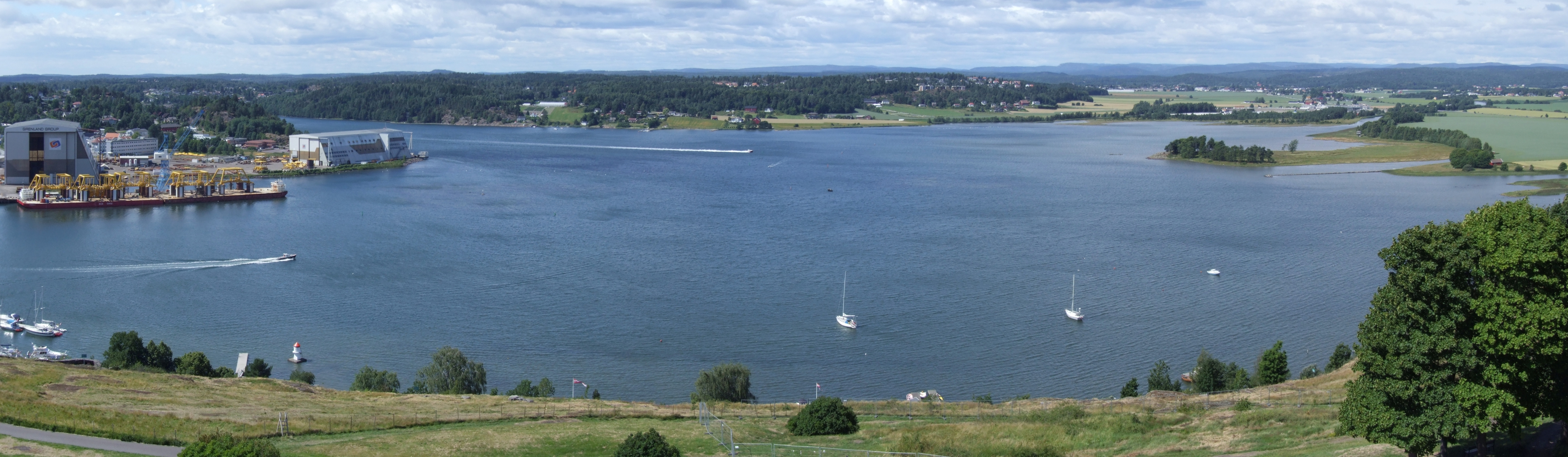 Tønsbergfjorden (part of Oslofjorden) in Tønsberg. View from Tunsberghus (Tønsberg Fortress)